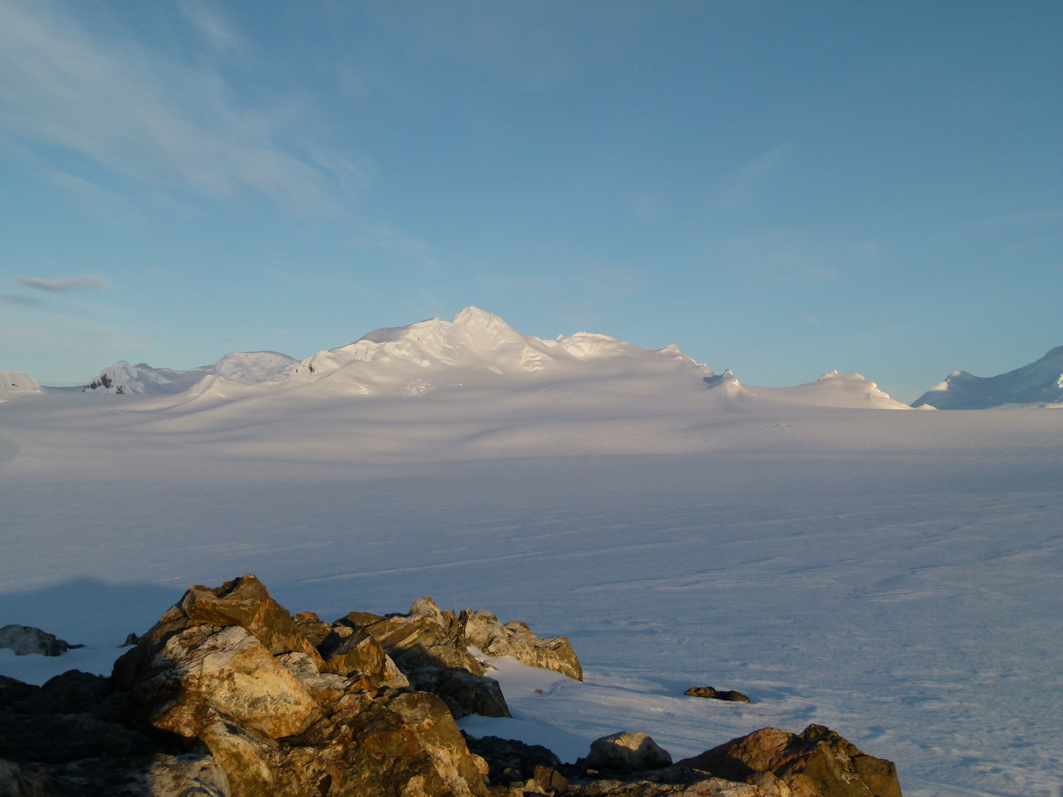 Balkan Snowfield and Burdick Ridge from Krumov Kamak (Krum Rock), Livingston Island in the South Shetland Islands, Antarctica.